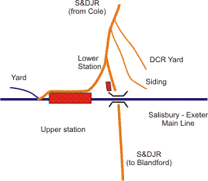 Railway layout at Templecombe in 1900's